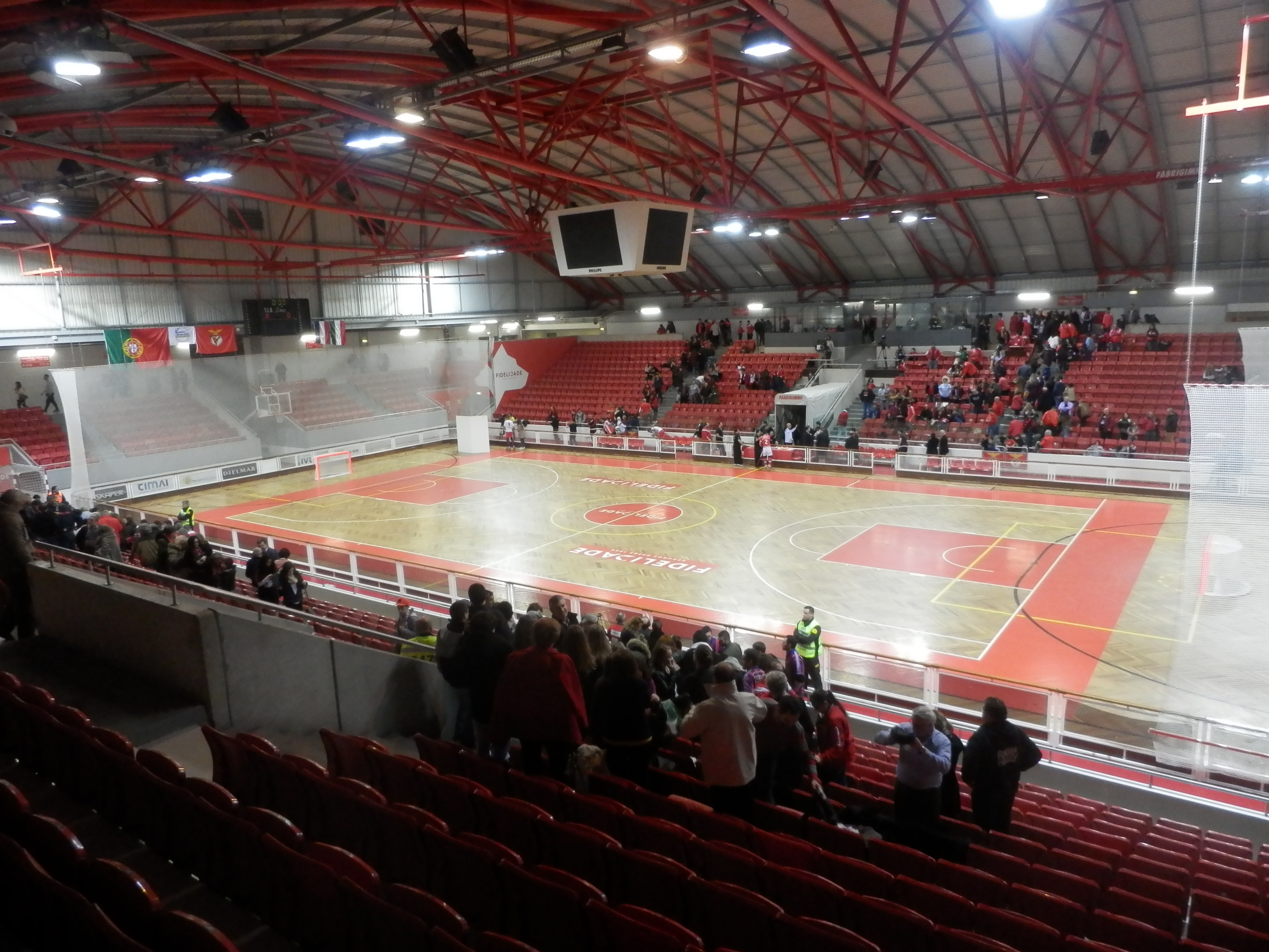 Better view of the sports hall